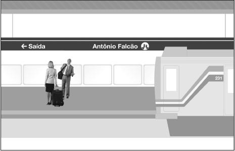 Painting of Antonio Falcão Station